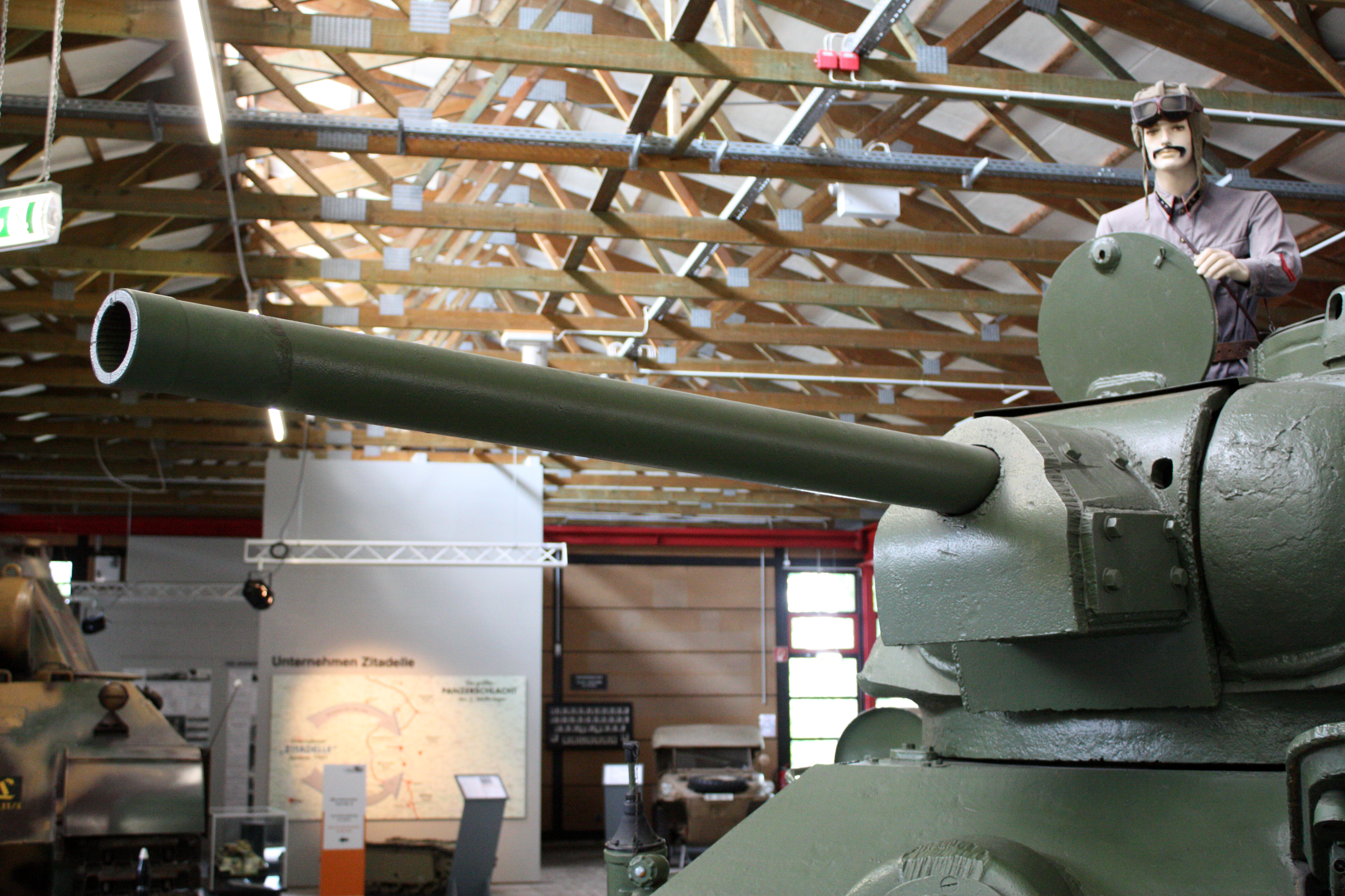 German Tank Museum